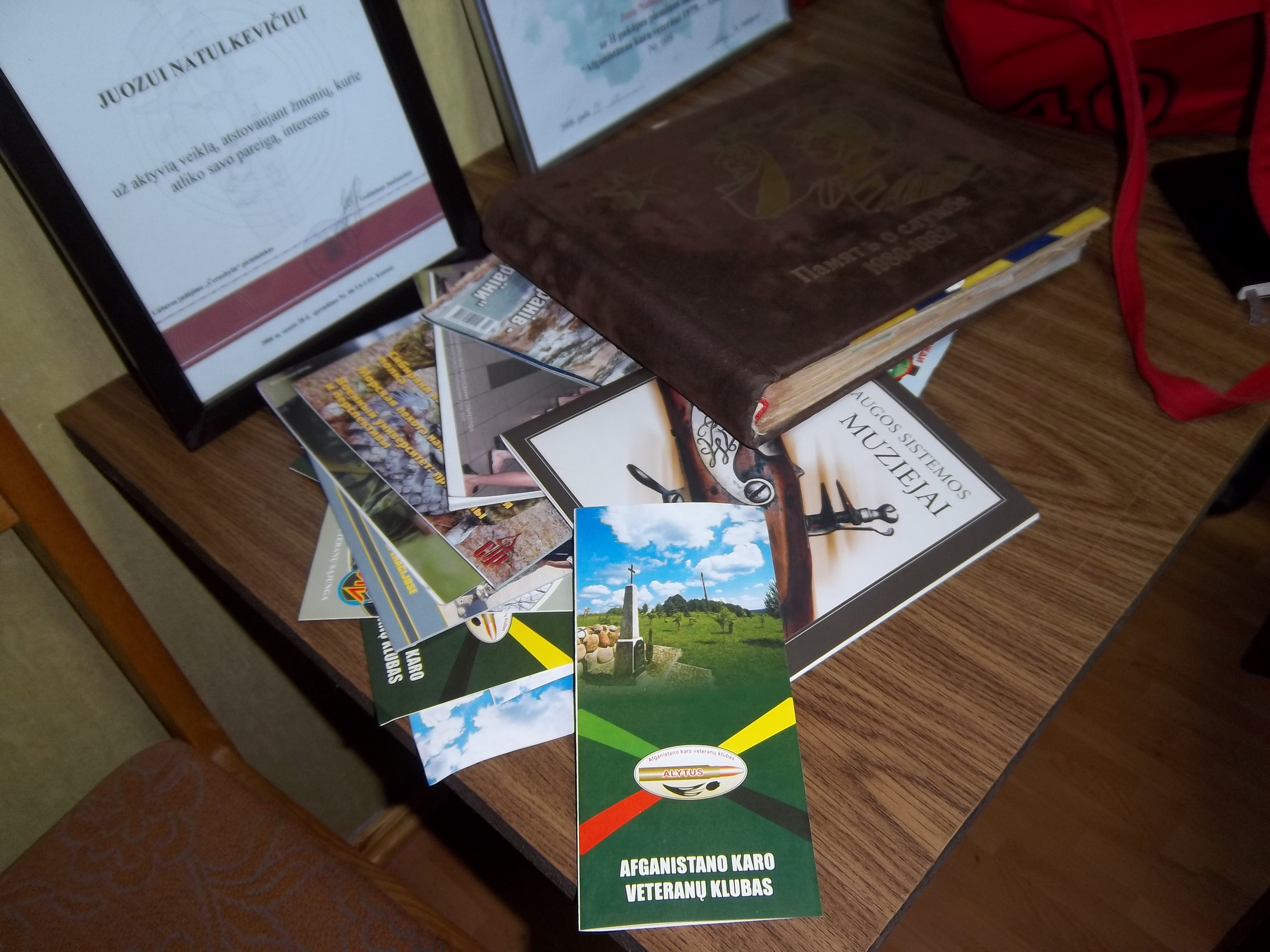 Veterans Museum Alytus